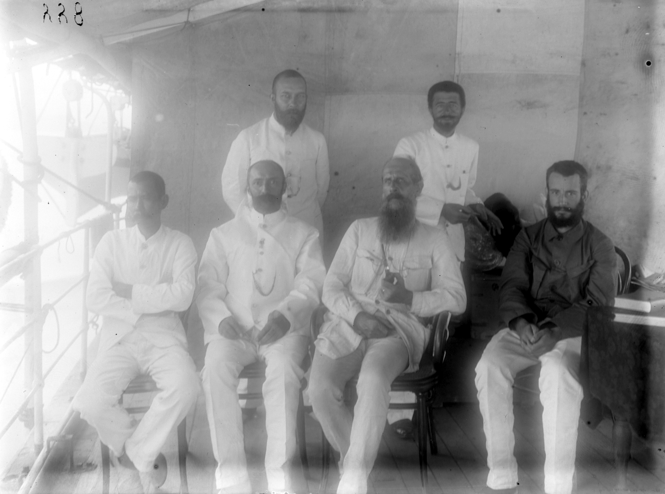 Subject: portrait